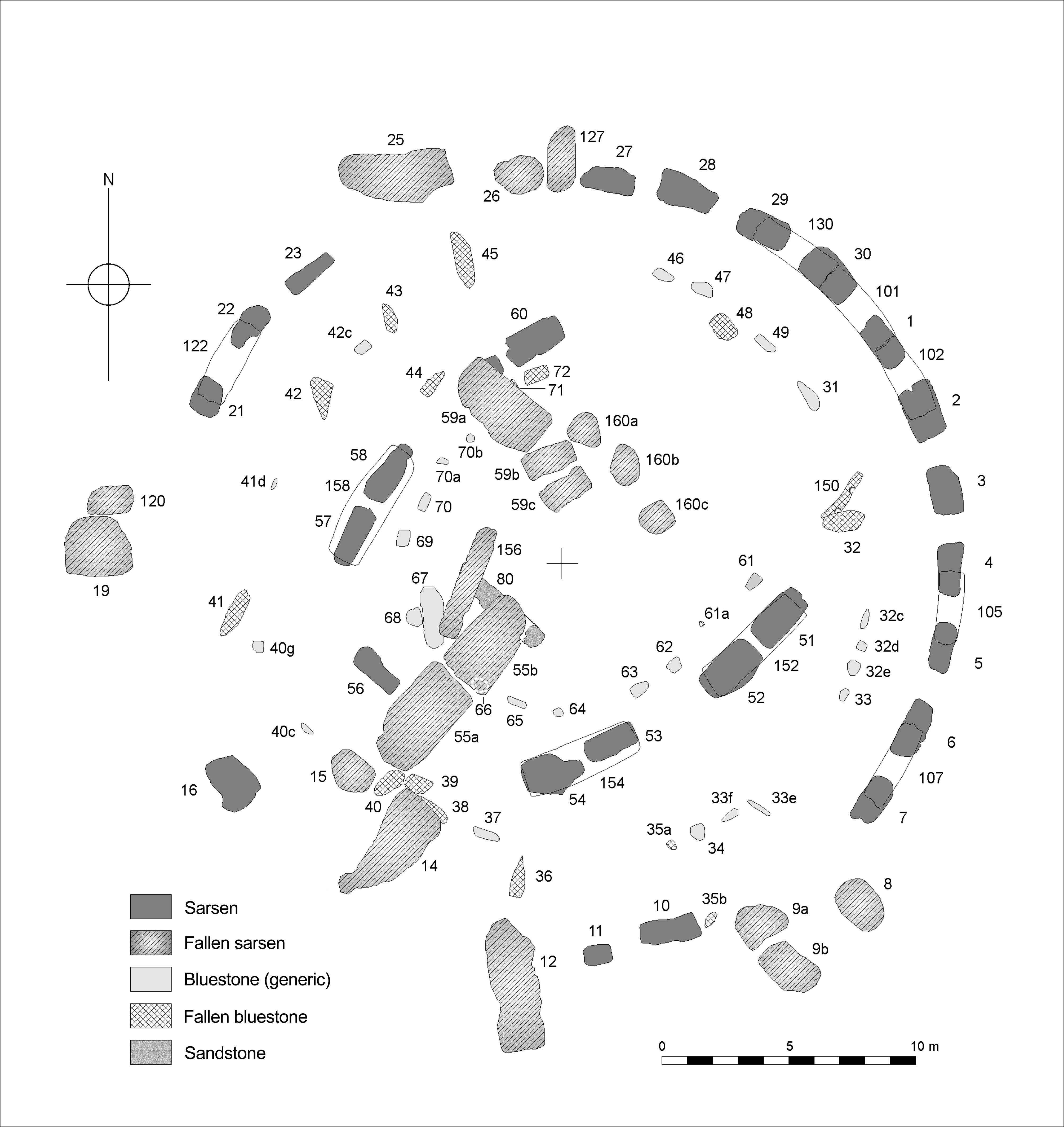 Plan of the central Stone Structure at Stonehenge as it survives today. Stone numbers are those conventionally used in the recent literature and following Petrie, F. 1880. Note that the Term 'Sarsen' used on the key refers to the hard silicified tertiary rock local to the chalkland of the Stonehenge region, sarsen is an exceptionally obdurate form of sandstone: The reference to sandstone on the key is to other ‘non sarsen’ material. The term ‘bluestone’ conveniently, though somewhat controversially, describes a generic group of igneous rock exotic to Salisbury Plain. The major group of bluestones visible today are dolerite - whose province is regarded as south west Wales. A number of other igneous rocks are represented within the arrays. Those interested in the exact make up of the blustone assemblage are referred to Cleal 1995, and Cunliffe and Renfrew 1997. Cleal, R. M. J., Walker, K. E. & Montague, R., Stonehenge in its landscape (English Heritage, London, 1995) Cunliffe, B. & Renfrew, C. Science and Stonhenge (Proceedings of the British Academy - 92, Oxford University Press 1997) Johnson, A. Solving Stonehenge (Thames & Hudson 2008)